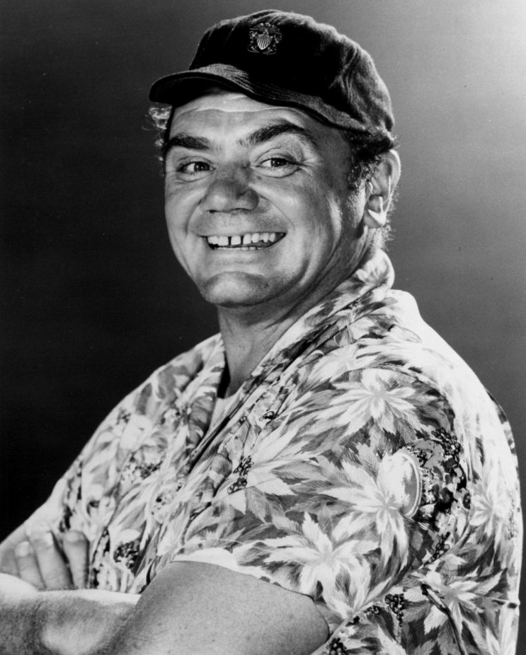 Publicity photo of Ernest Borgnine as Commander McHale from the television program McHale's Navy.